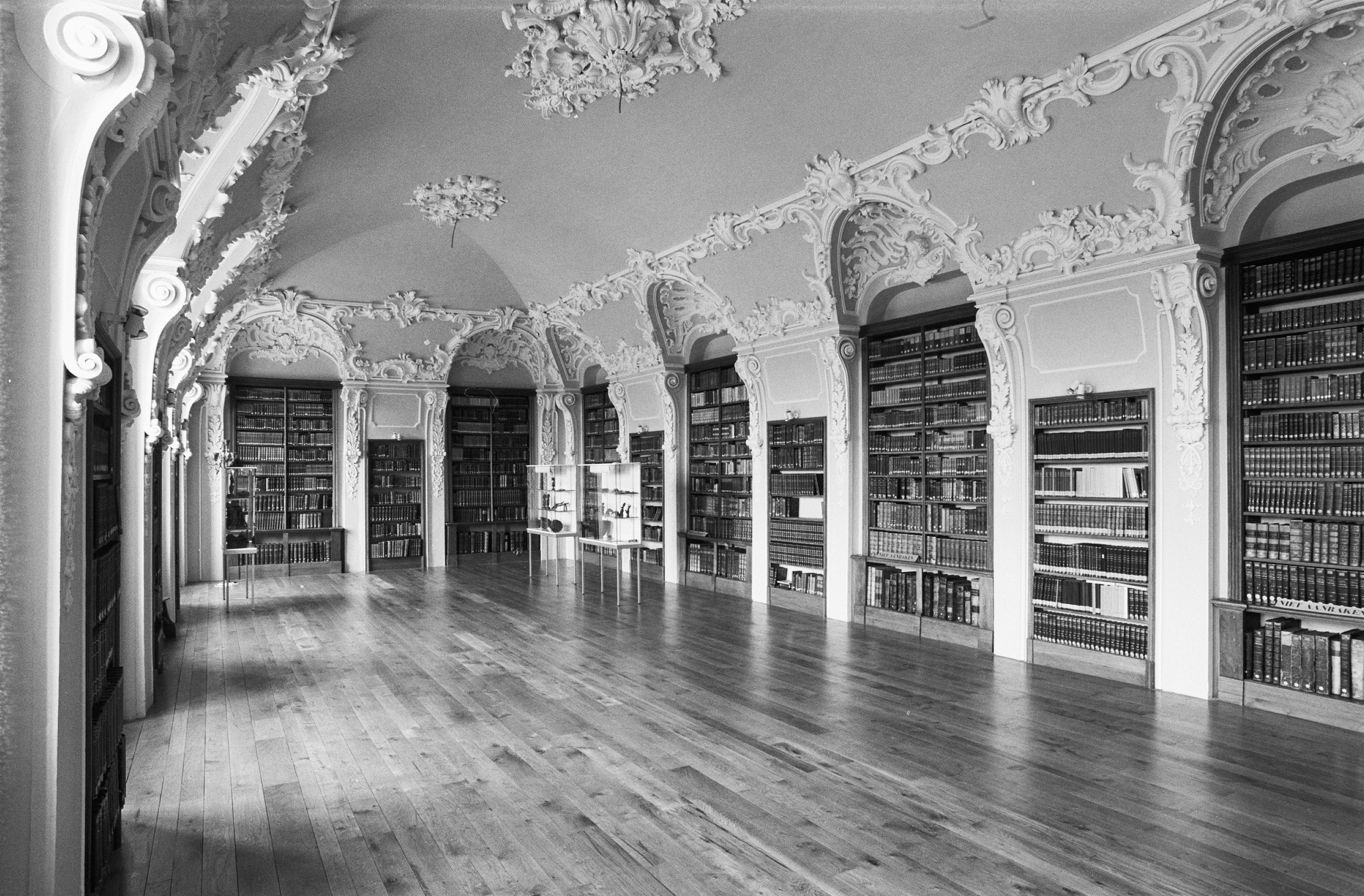 Interior of Rococo library of Rolduc Roman Catholic Seminar. Built by Joseph Moretti, 1754. Part of Rolduc Abbey, Kerkrade, the Netherlands.